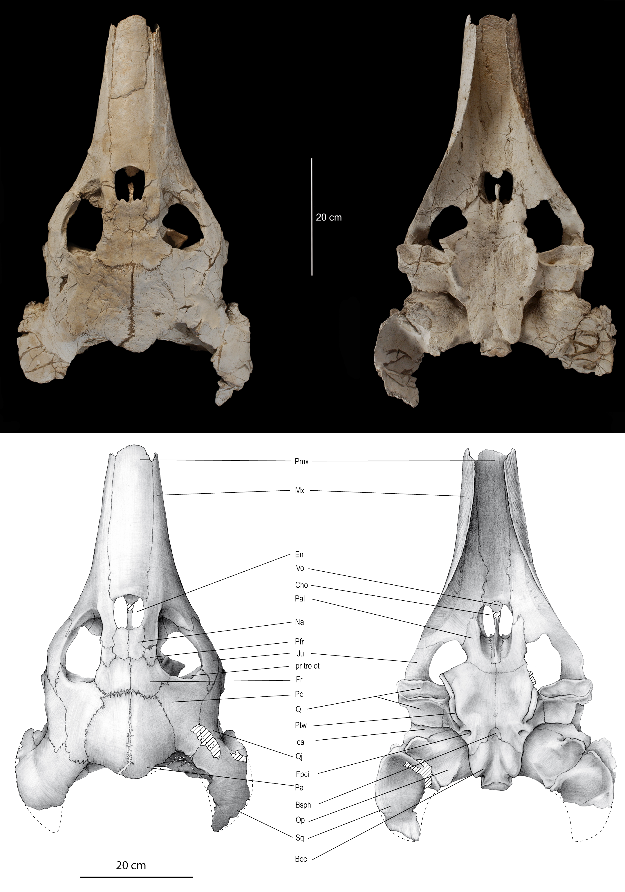 Ocepechelon bouyai gen. et sp. nov., dorsal (left) and ventral (right) views of the skull. OCP DEK/GE 516, Holotype, Phosphates (Upper Level III, Upper Maastrichtian, uppermost Cretaceous), Sidi Chennane area (Oulad Abdoun Basin, Morocco). Photographs and interpretative drawings. Abbreviations: Boc, basioccipital; Bsph, basisphenoid; Cho, choanae; En, external nare; Fpci, foramen posterior canalis carotici interni; Fr, frontal; Ica, incisura columellae auris; Ju, jugal; Mx, maxilla; Na, nasal; Op, opisthotic; Pa, parietal; Pal, palatine; Pfr, prefrontal; Pmx, premaxilla; Po, postorbital; pr tro ot, processus trochlearis oticus; Pt, pterygoid; Ptw, pterygoid wing; Q, quadrate; Qj, quadratojugal; Ra, marks of the rhamphotheca; Sq, squamosal; Vo, vomer. Scale = 20 cm.